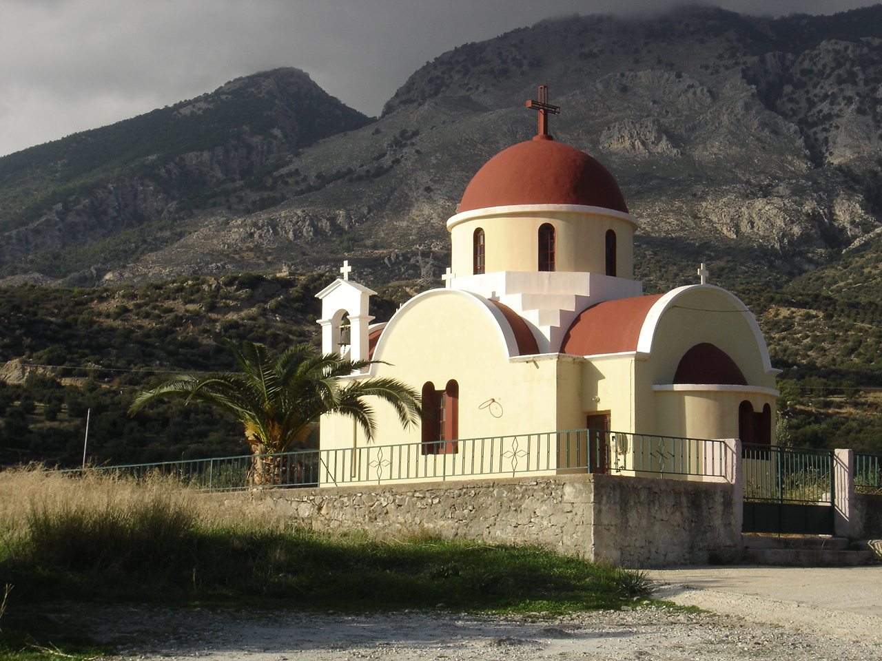 The Church of Agios Georgios in Gdochia.